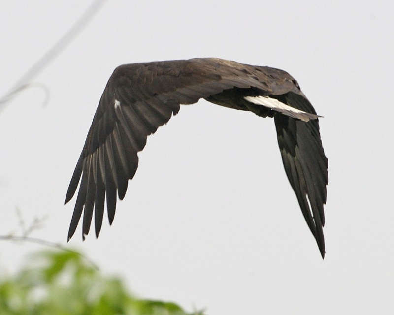 View of black tail and broad white sub-terminal band as it took flight. Pallas's Fish Eagle Haliaeetus leucoryphus Kazaringa, Assam, India April 15, 2008 690V5384